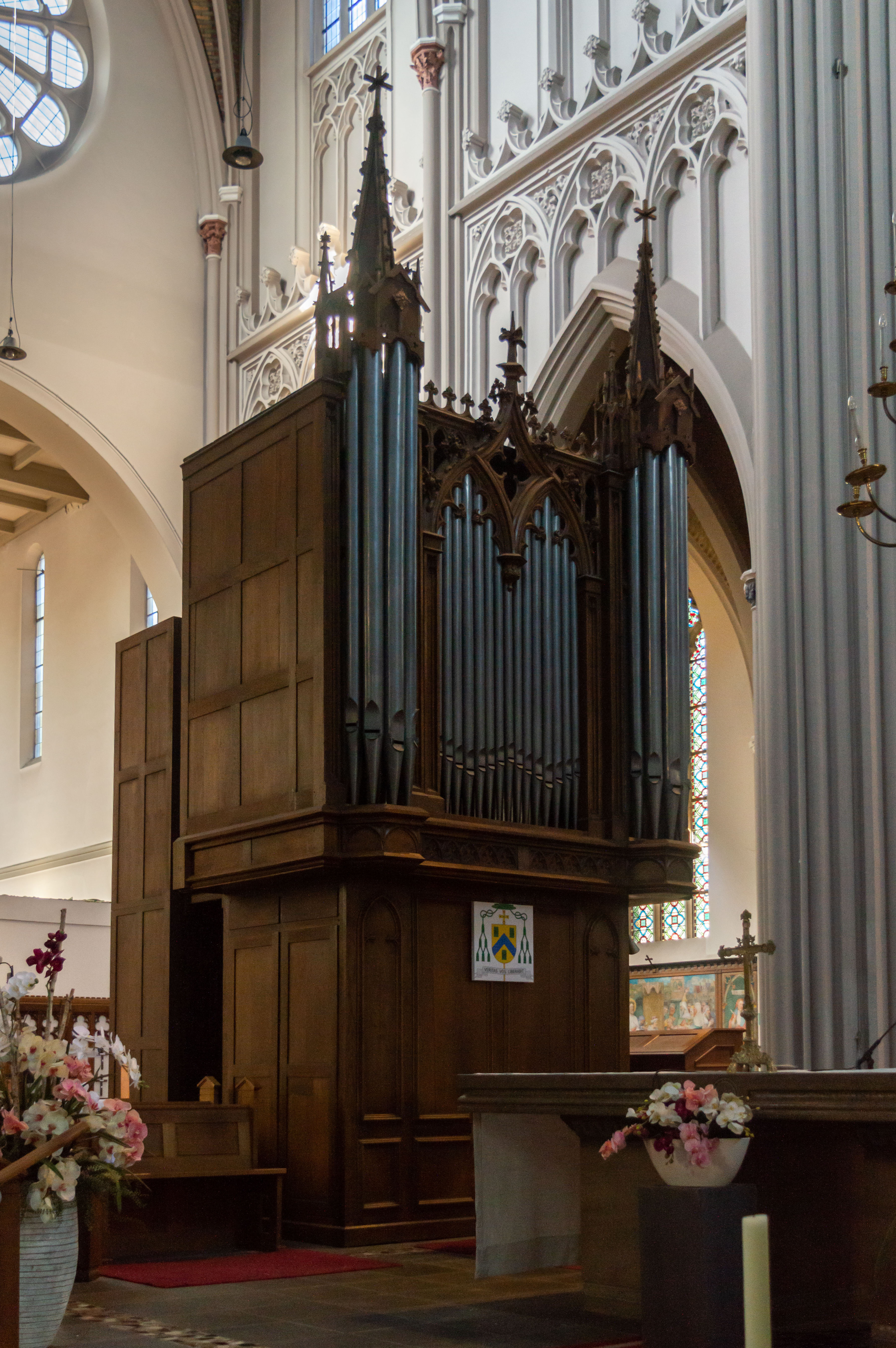 Second organ in the Heuvelse kerk in Tilburg.